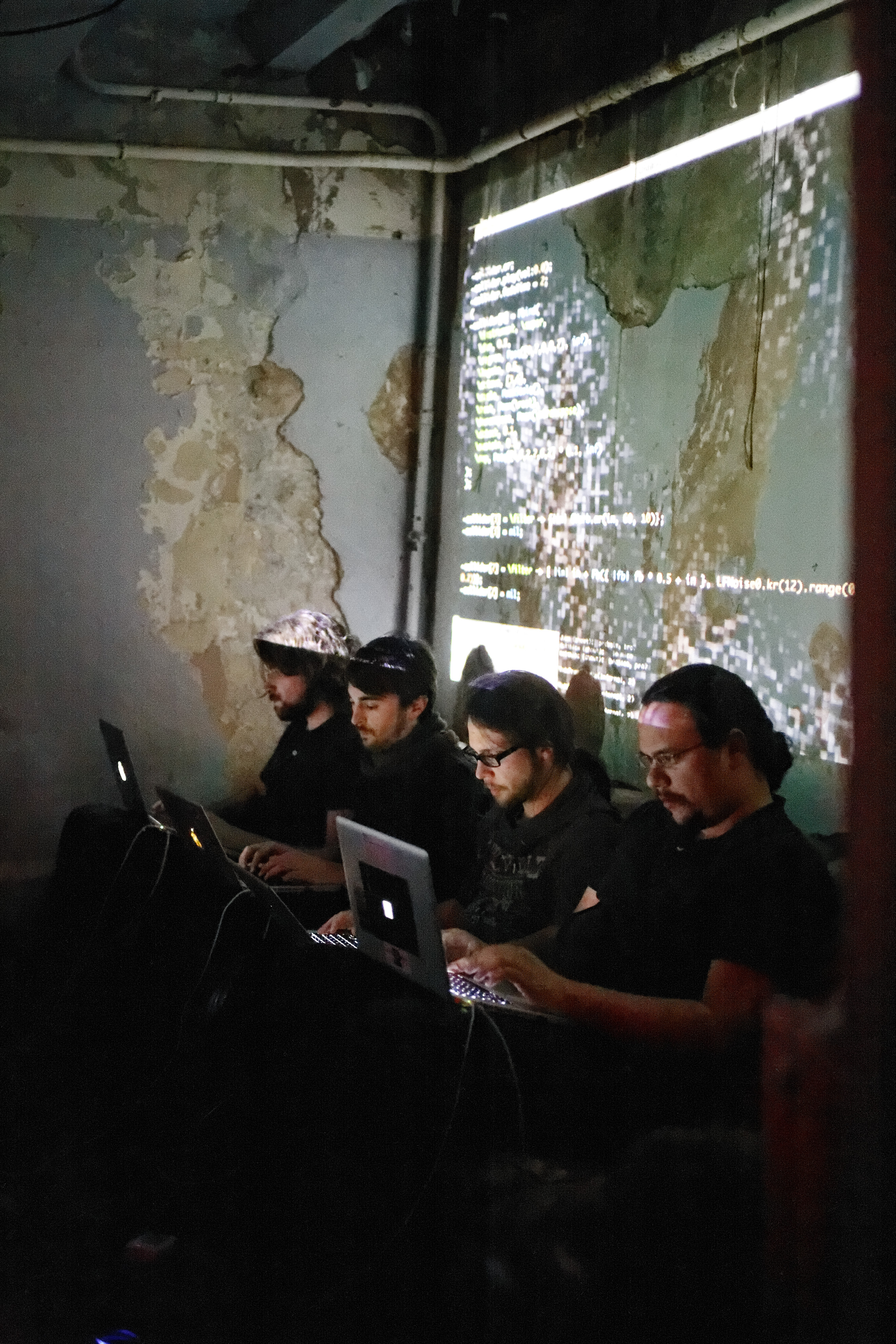 From the Supercollider Symposium 2012 "Livecode Evening" description: Codefaced people hacking music live in front of your eyes. Live coding is a new direction in electronic music and video: live coders expose and rewire the innards of software while it generates improvised music and/or visuals.